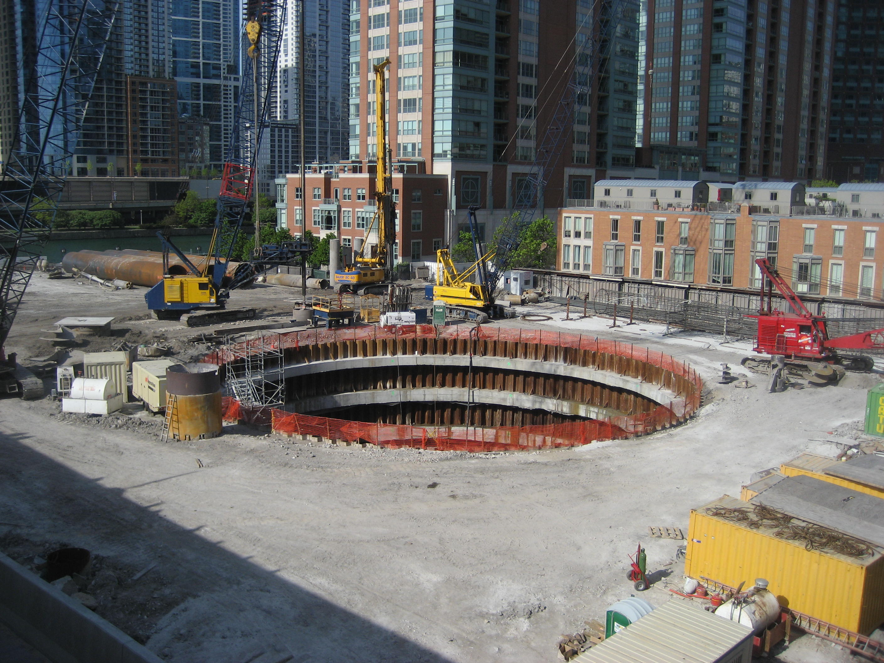 Picture of the construction site for the Chicago Spire from Lake Shore Drive.